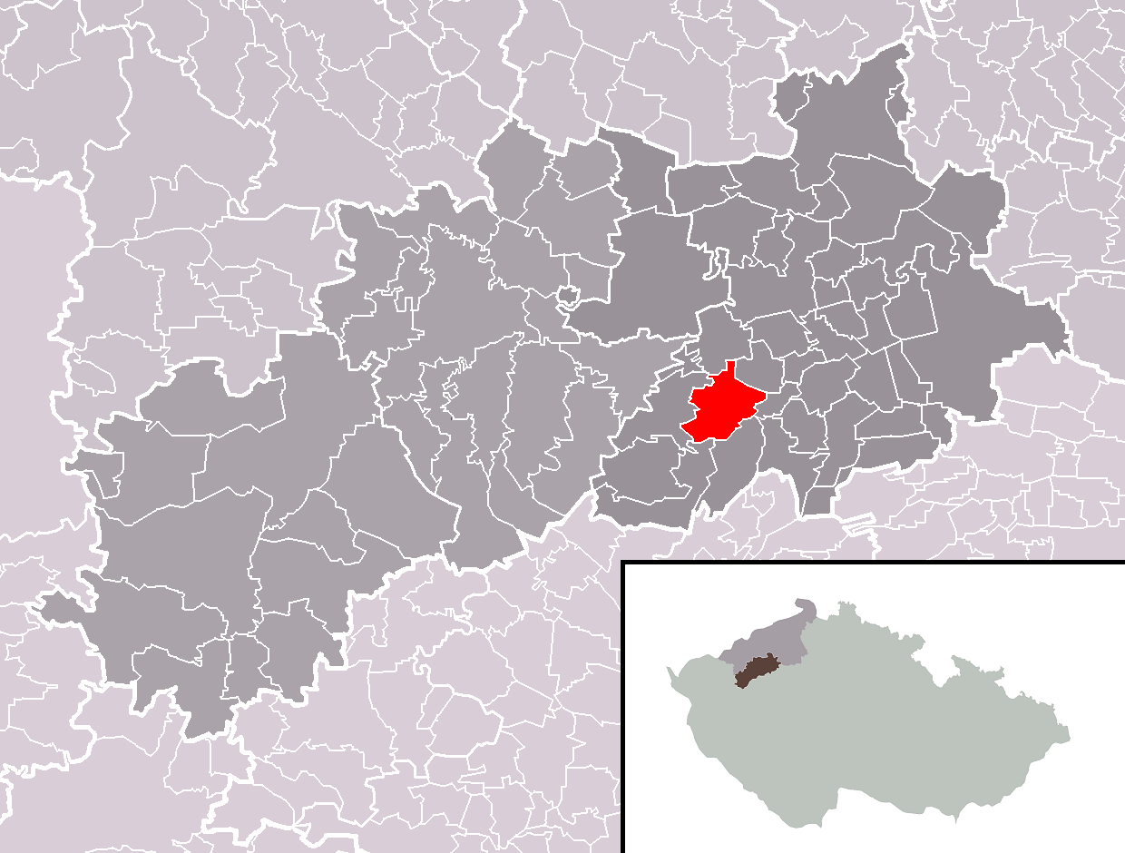 Location of Zbrašín municipality within Louny District and administrative area of Louny as a Municipality with Extended Competence.